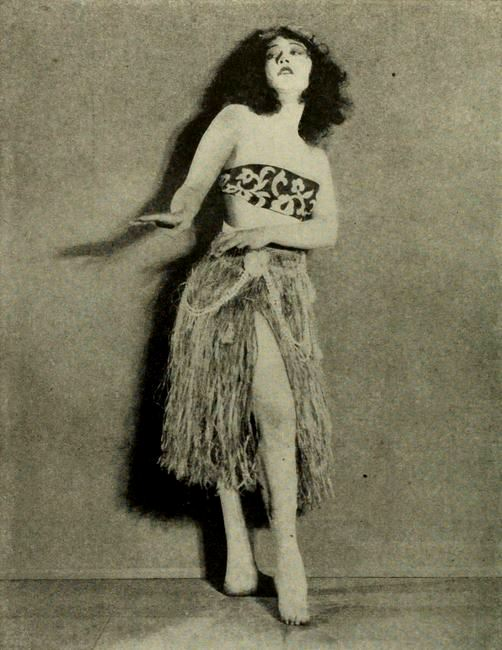 Still for the American film The White Flower (1923) with Betty Compson, on page 80 of the December 1922 Photoplay.